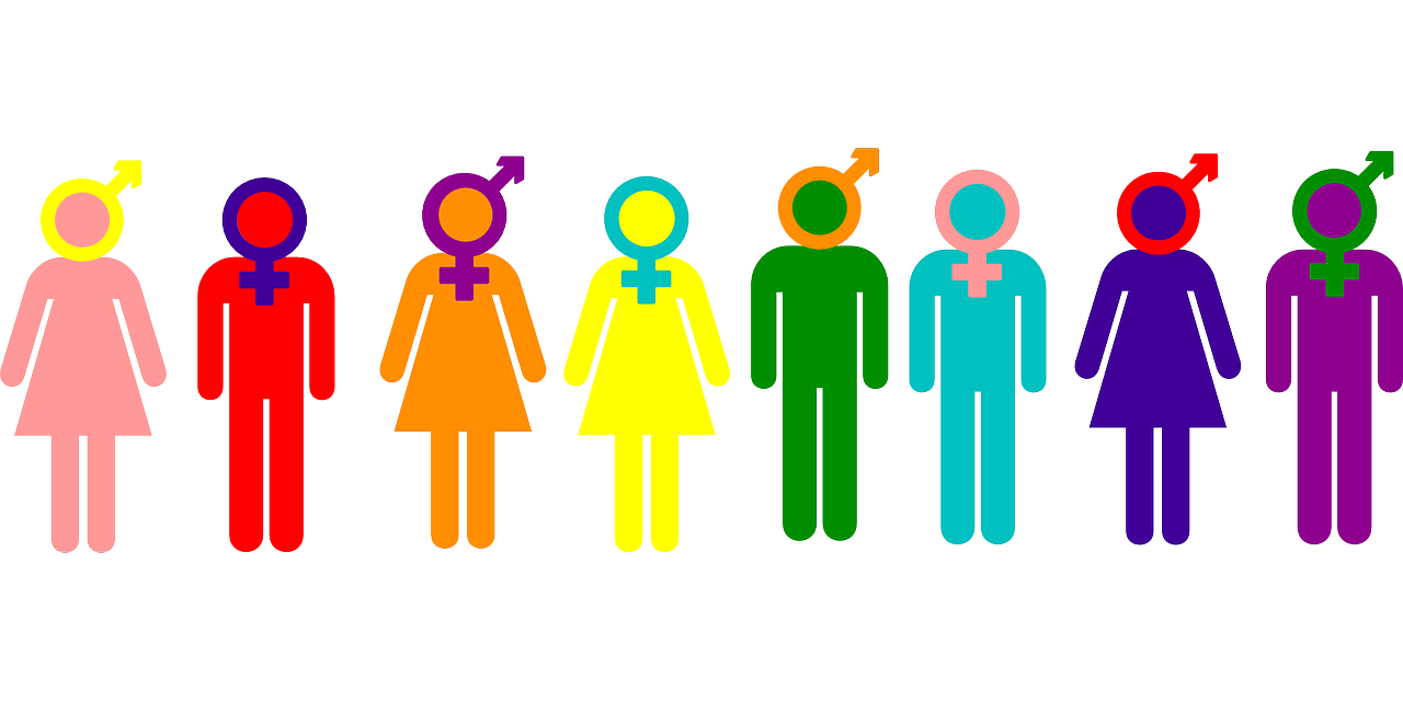 The inclusivity of the LGBTQ community.